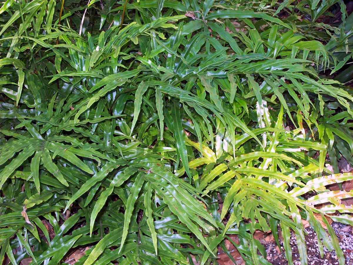 Pteris umbrosa from Dorrigo National Park, photographed at RBG Sydney